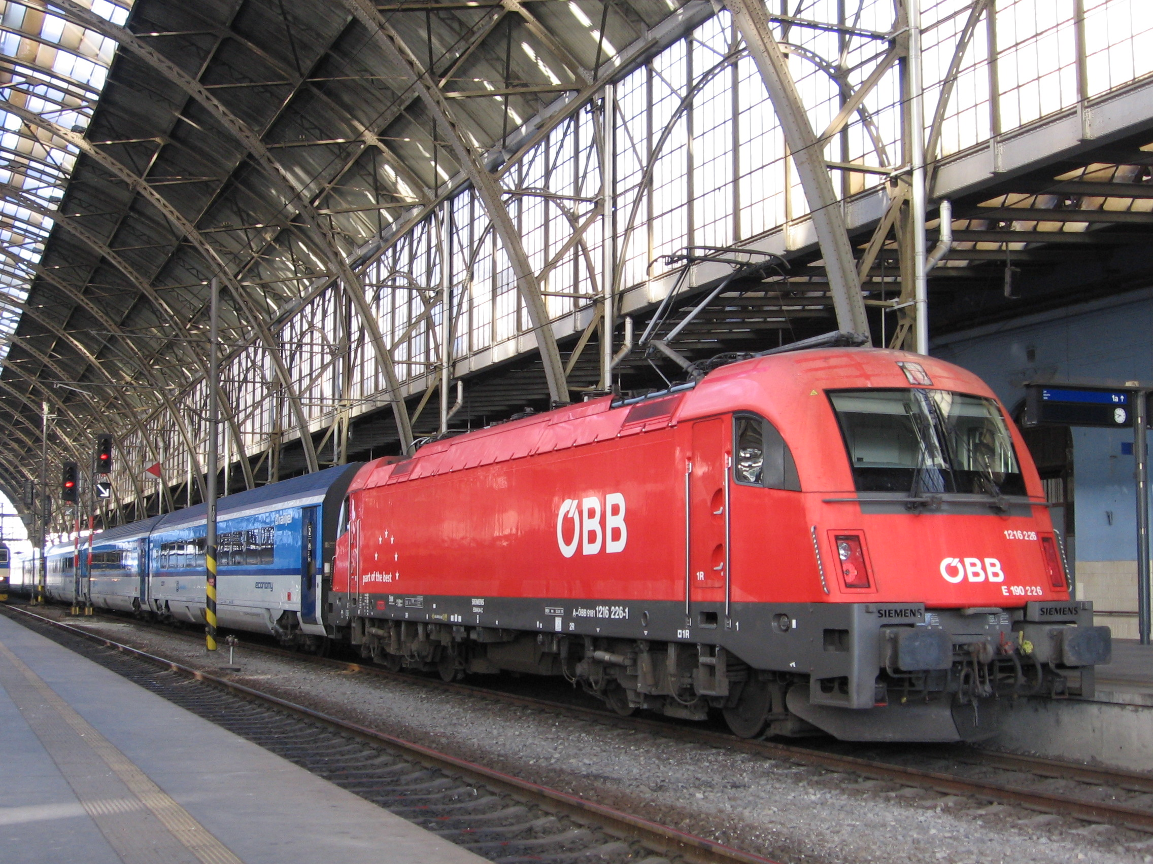 Taurus 1216 226 of Austrian railways at Prague main station